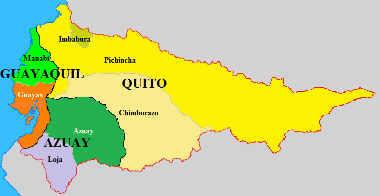 Ecuador in 1832